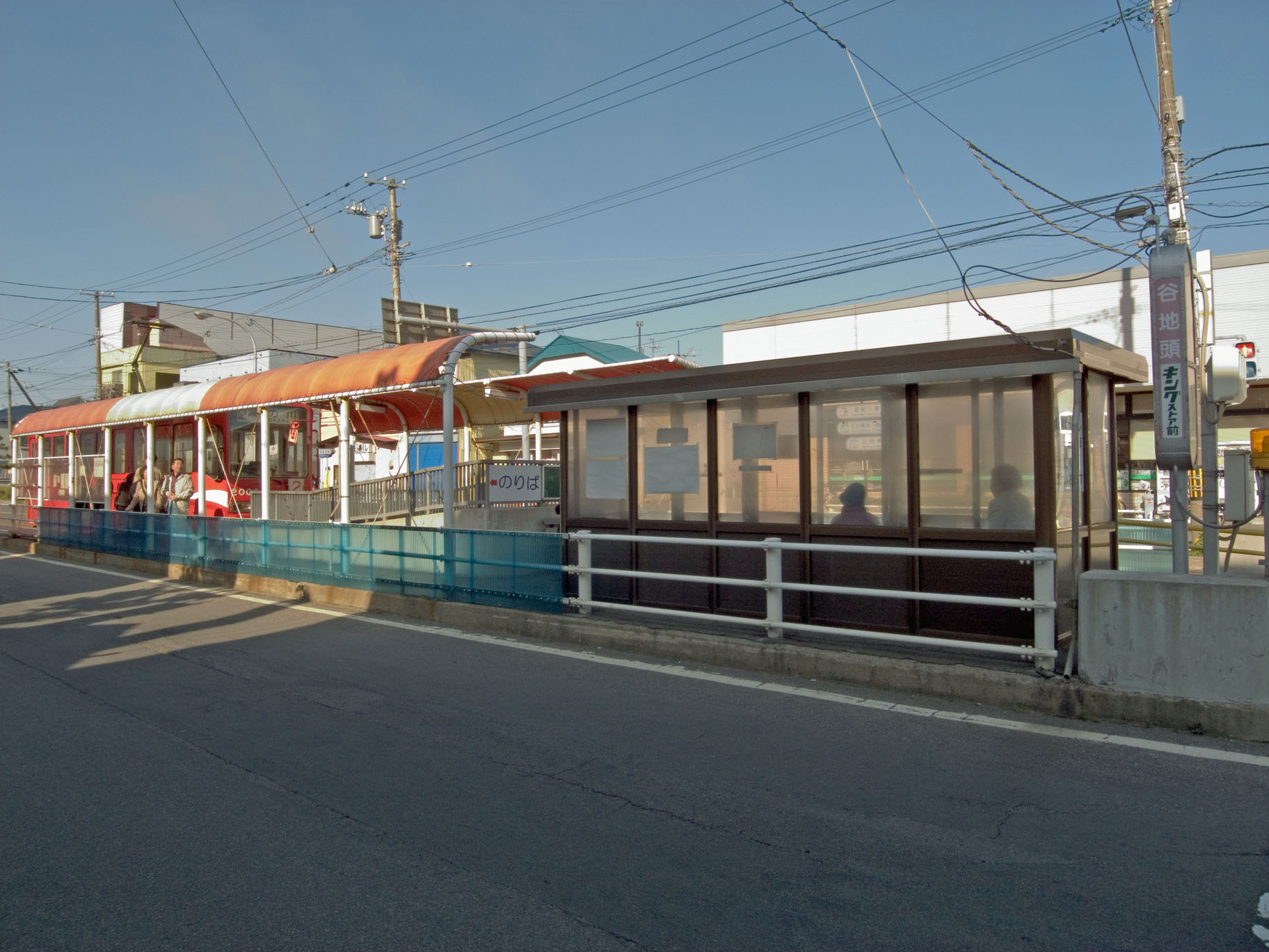 Yachigashira station in Hakodate tram, Hokkaido, Japan